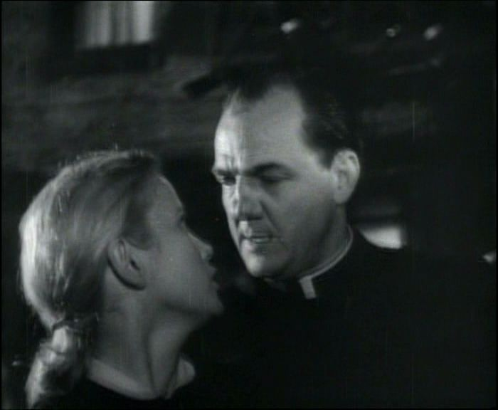 Eva Marie Saint and Karl Malden in a screenshot from the trailer for the film On the Waterfront.